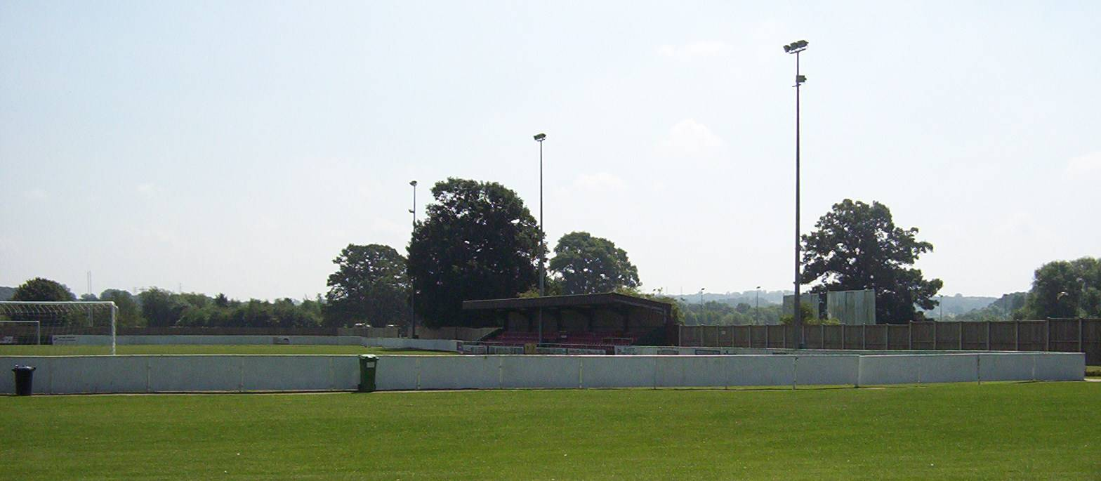 Walshes Meadow, home of Stourport Swifts F.C. photographed by myself, July 2008